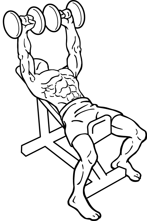 an exercise of chest